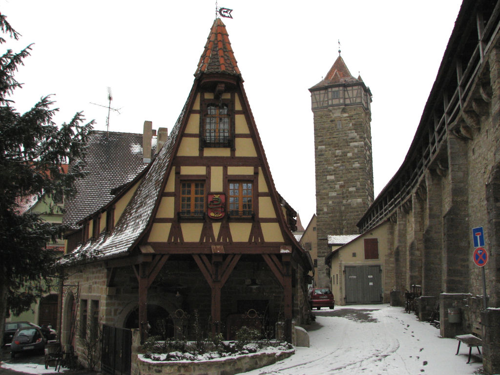 Rothenburg city wall and vintage house